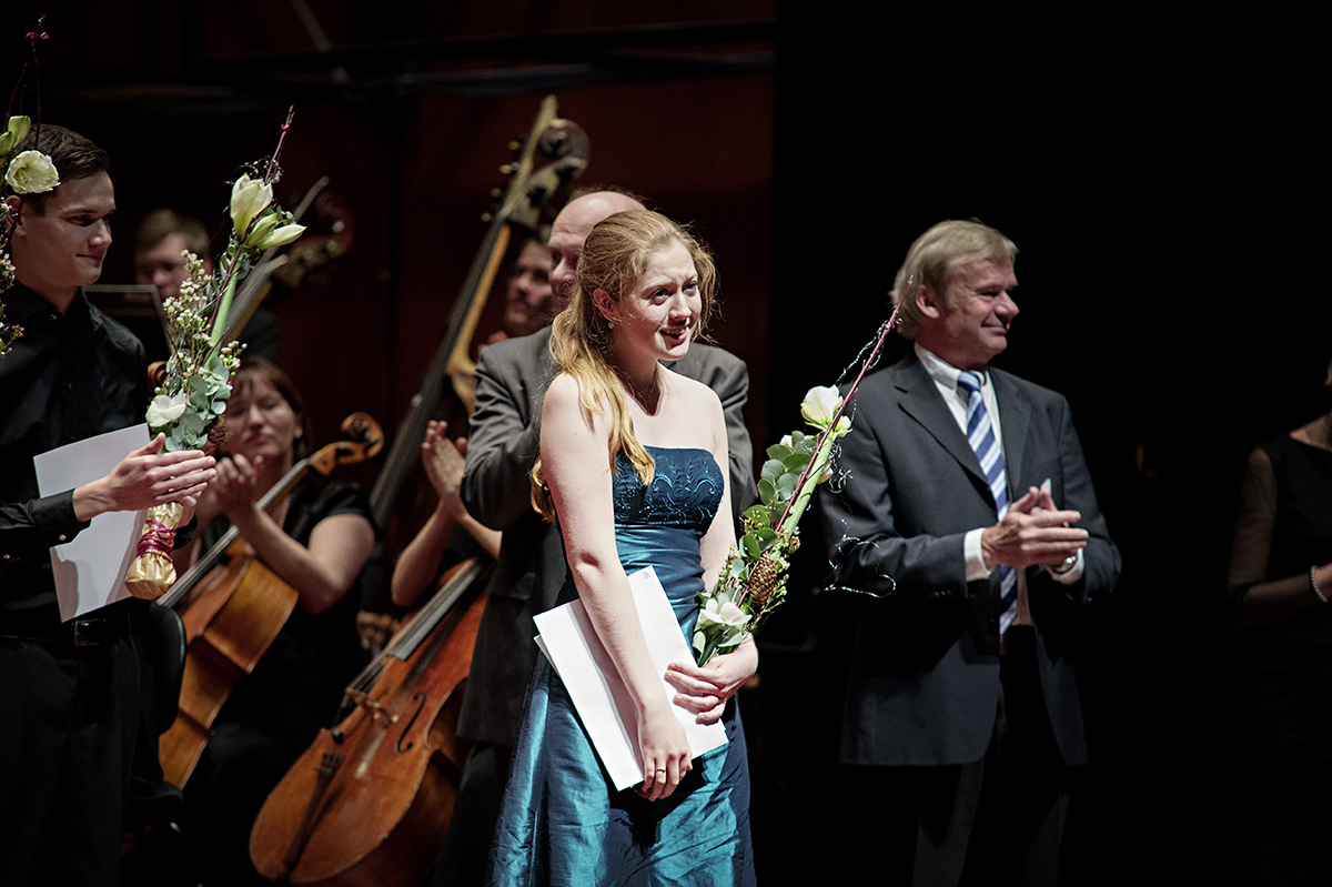 the photo shows the young Norwegian violinist Miriam Helms Ålien, right after she has won the Prinsesse Astrids musikkpris in Trondheim, 2012